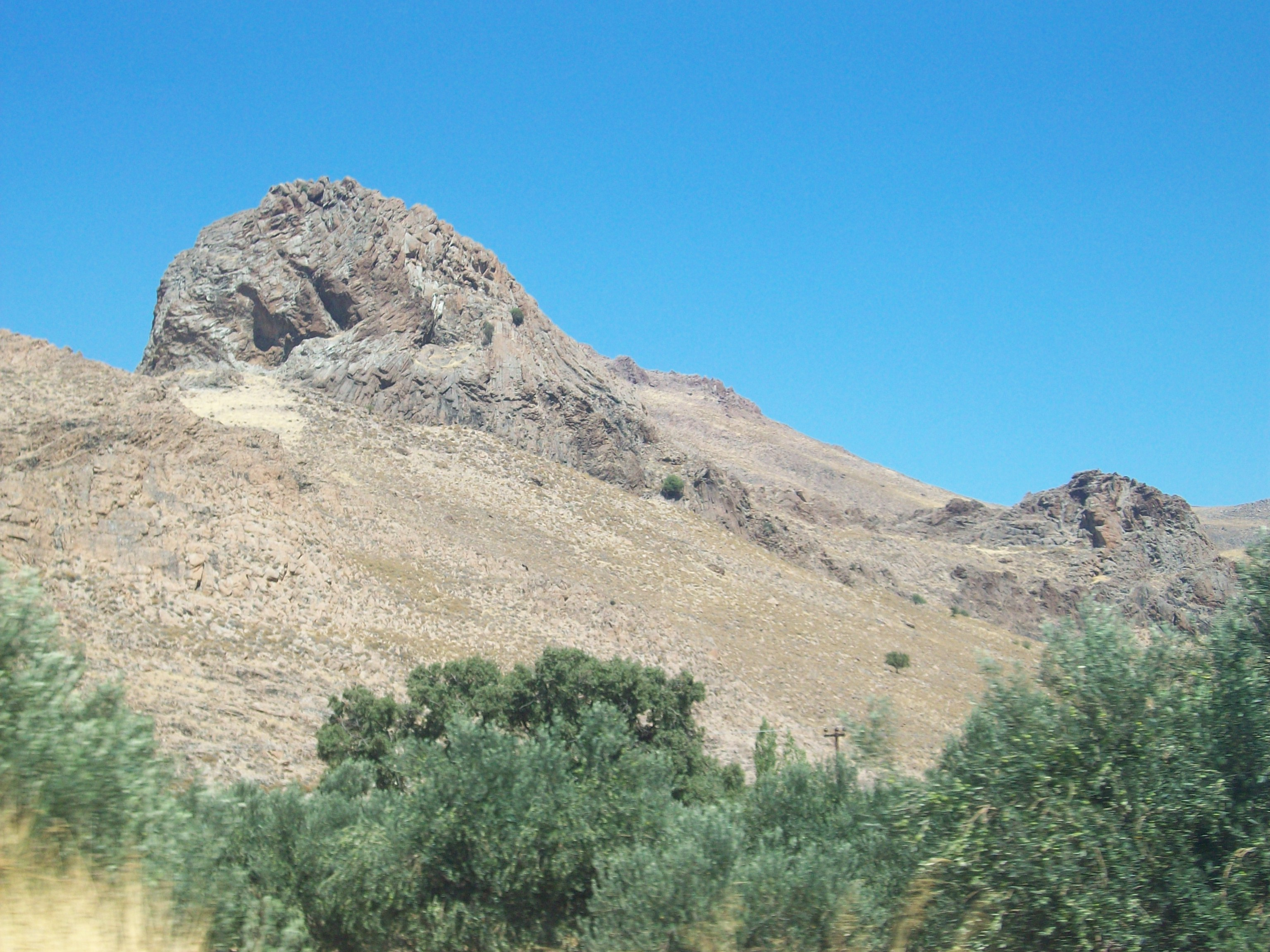 lava dome between Eresos and Mesotopos, Lesvos, created about 20 millions years ago